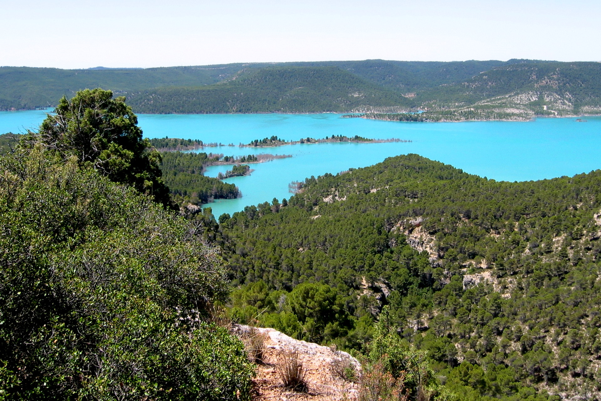 Vistas del embalse de Contreras.